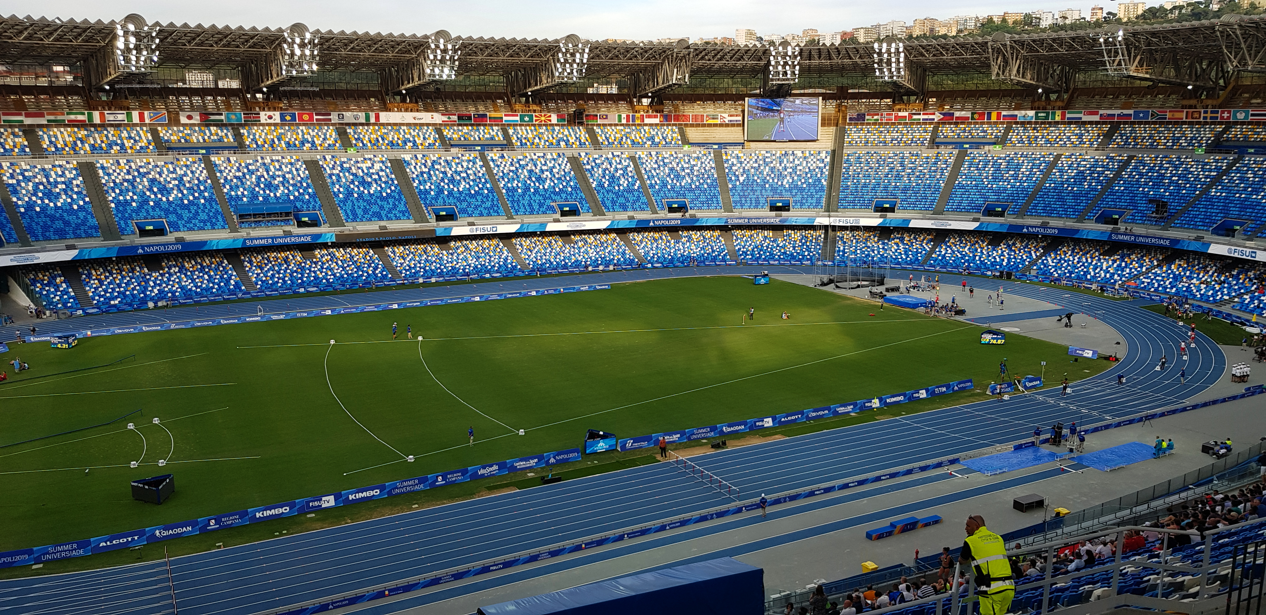 "San Paolo" Stadium of Naples (Italy) during athletics competitions of 2019 Summer Universiade